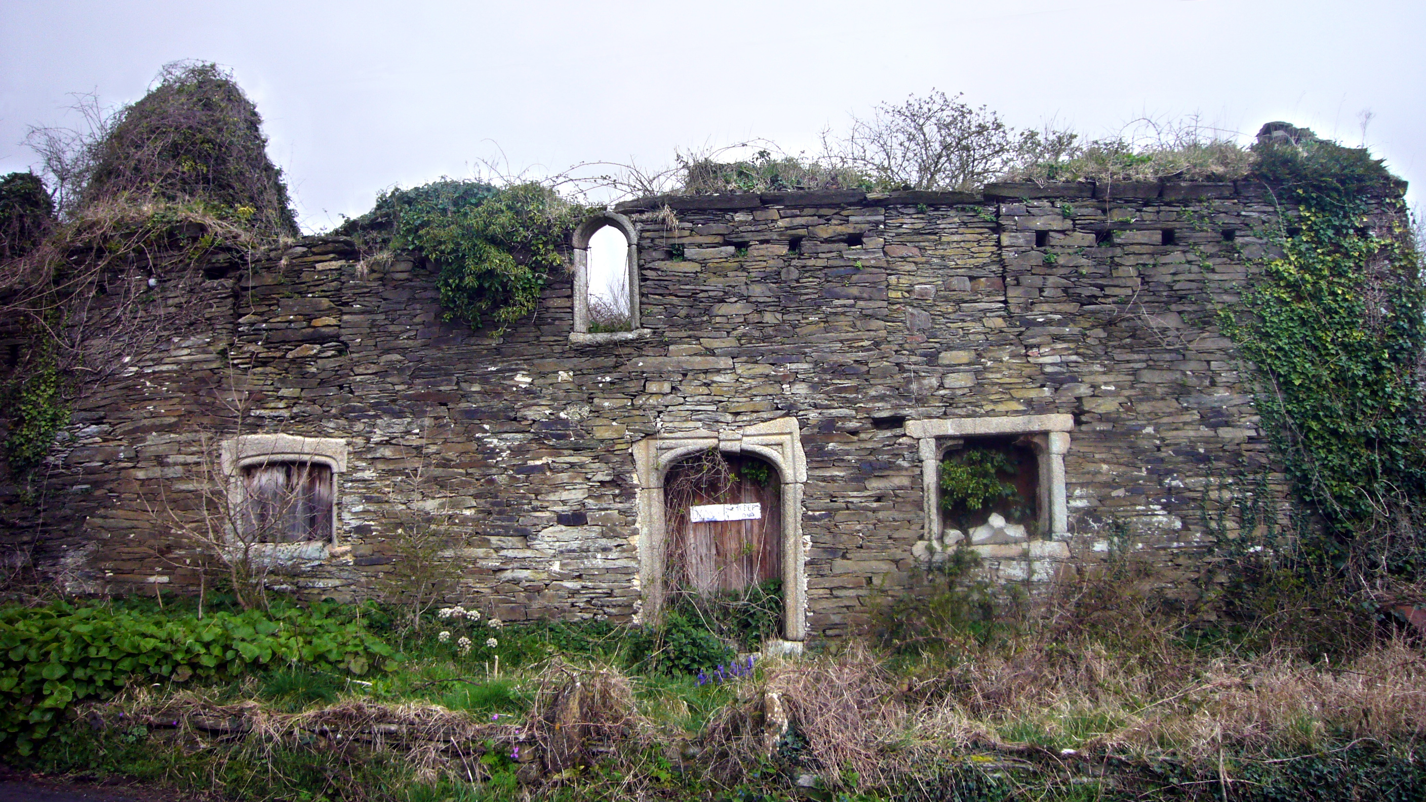 This has been claimed as a barn with reused Tudor granite mouldings, however the eaves show signs of thatch supports that match the openings which are very elaborate for a barn and may relate to the Barton name